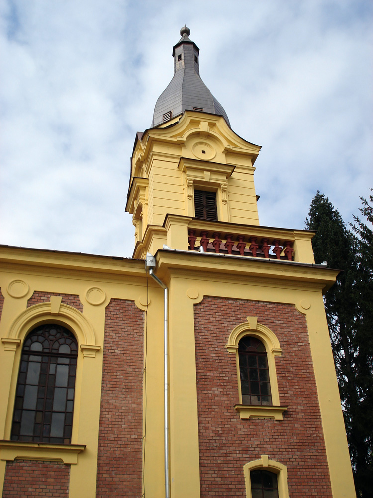 Diosgyor Lutheran Church, Miskolc, Hungary